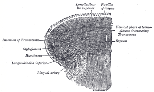 Coronal section of tongue, showing intrinsic muscles. (Altered from Krause.)